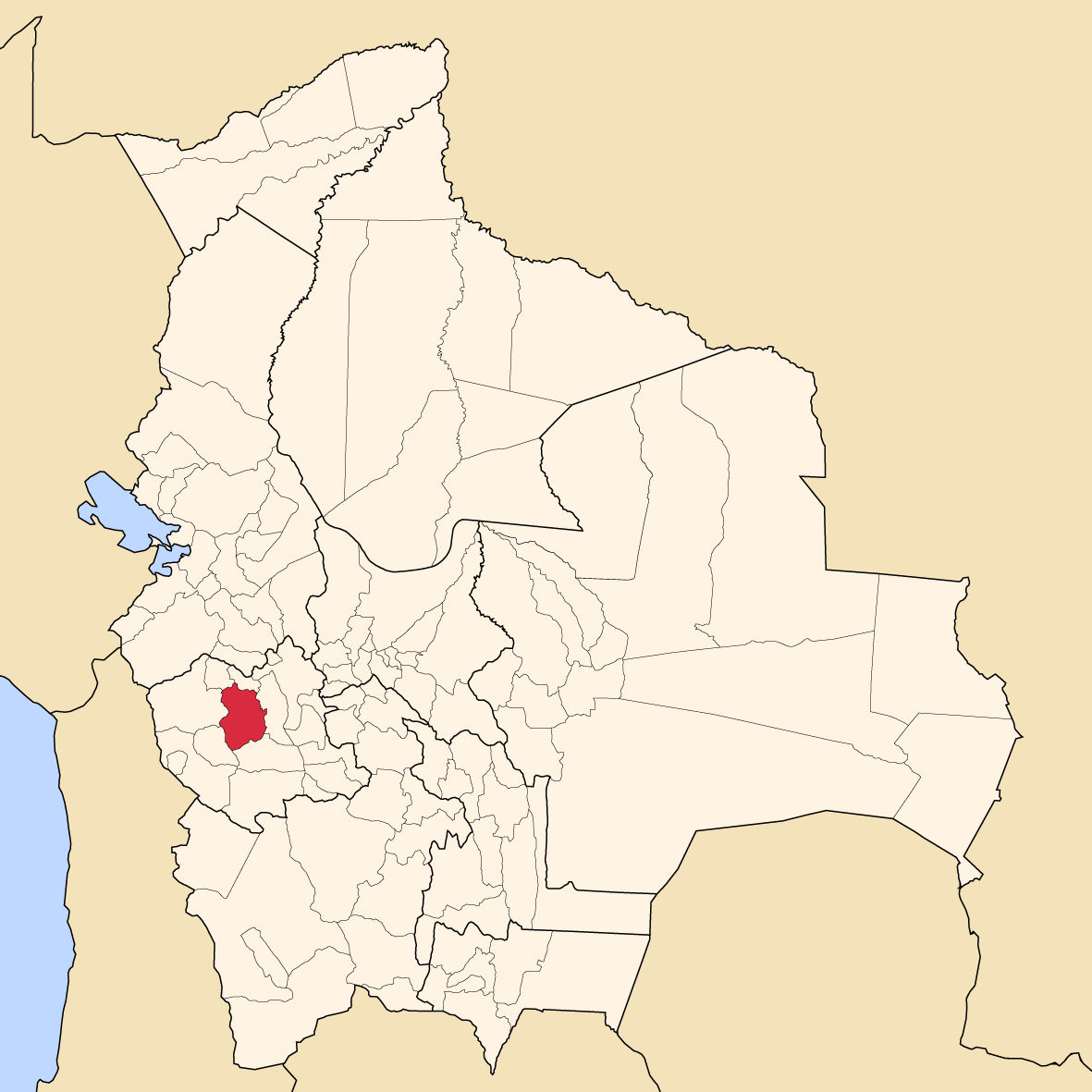 Map of Bolivia showing Carangas province, Oruro